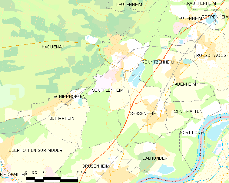 Map of French municipality